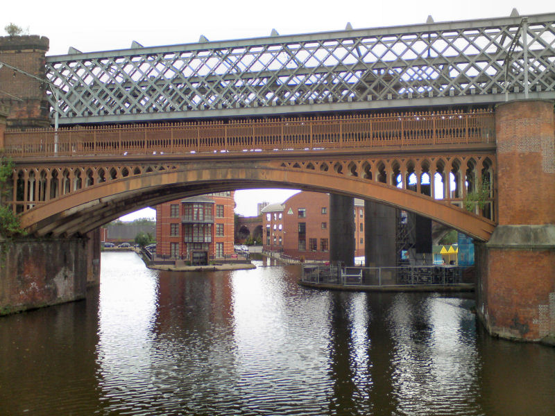 Railway Bridge at Giants Basin, Manchester